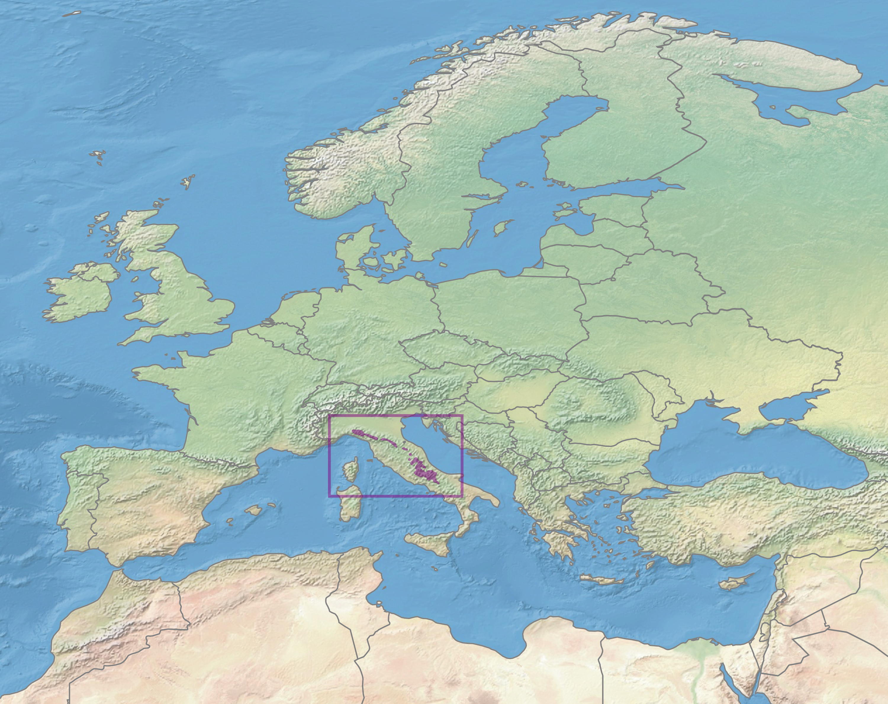 Ecoregion PA0401: Appenine deciduous montane forests